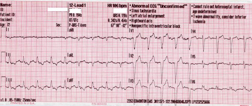 sinus tachycardia, left bundle brunch block